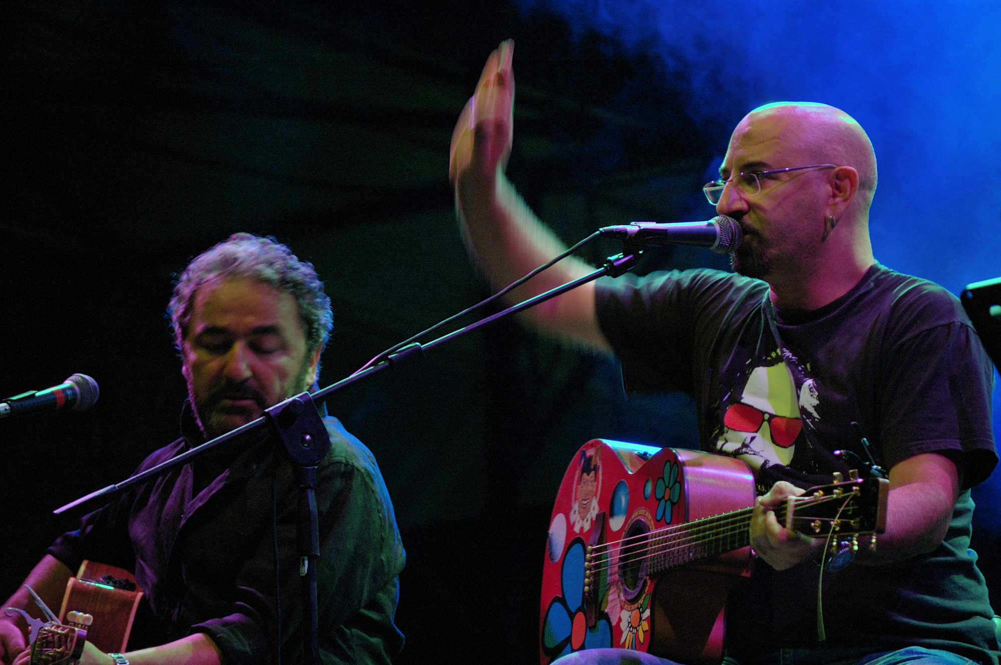 Bermuda Acoustic Trio guitarists Gabriele Monti and Giorgio Buttazzo in a live performance in Modena Gabriele Monti e Giorgio Buttazzo dei Bermuda Acoustic Trio in concerto a Modena